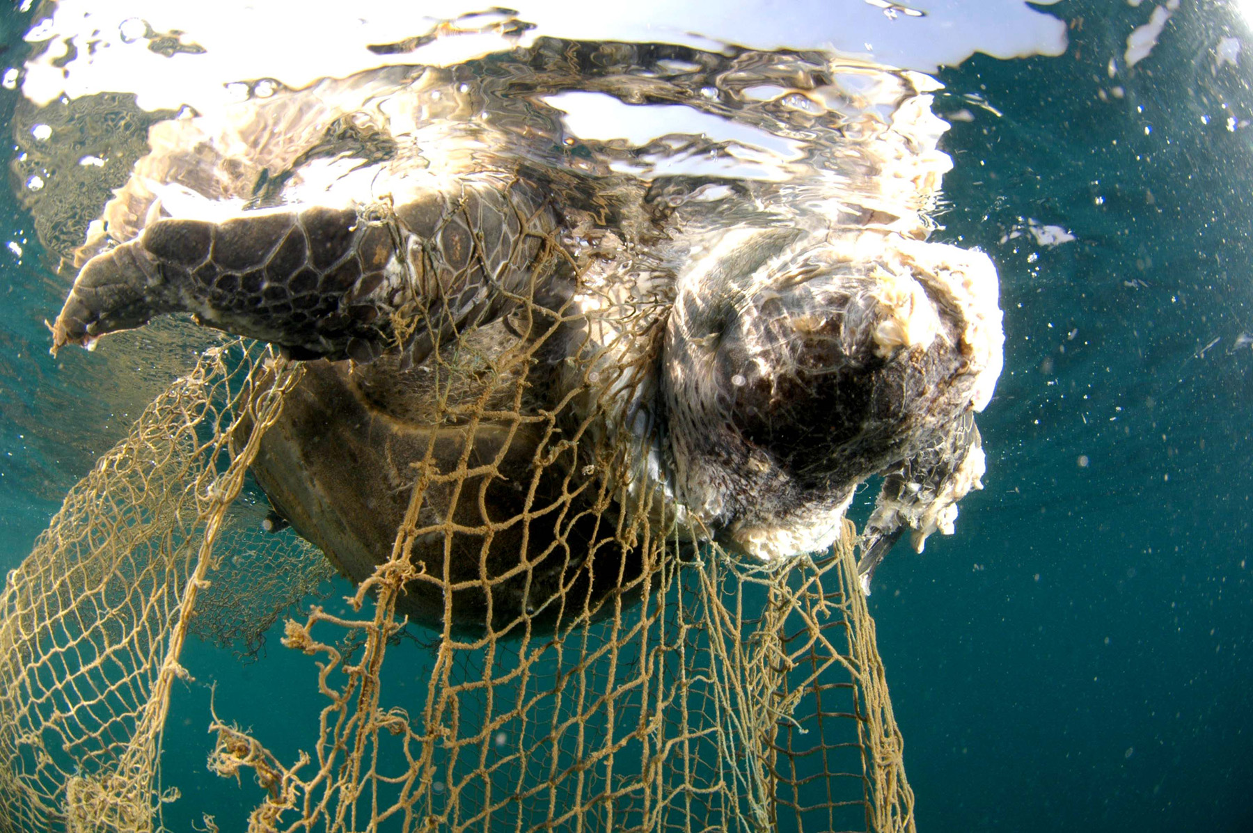 The following is the author's description of the photograph quoted directly from the photograph's Flickr page. "Tartaruga Turttle "